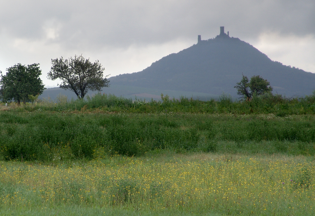 Házmburk hill in České středohoří, Czech Republic.